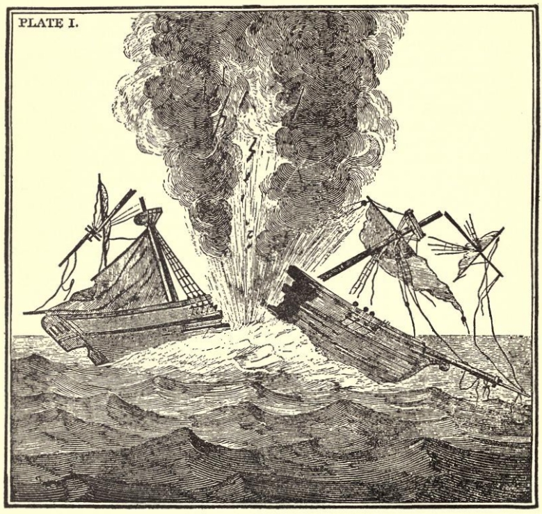 Torpedo test 18. oct. 1805 brig Dorothea sunk in twenty seconds